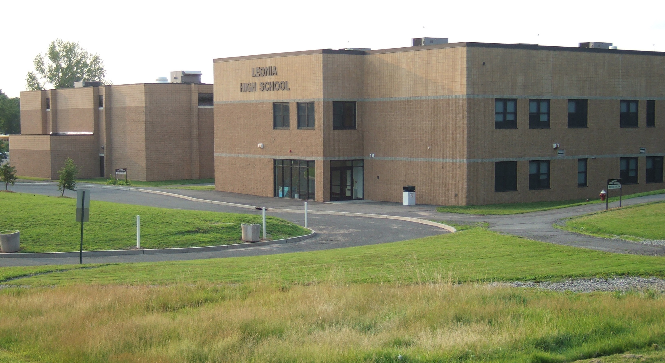 Photo of Leonia High School in Leonia, New Jersey.